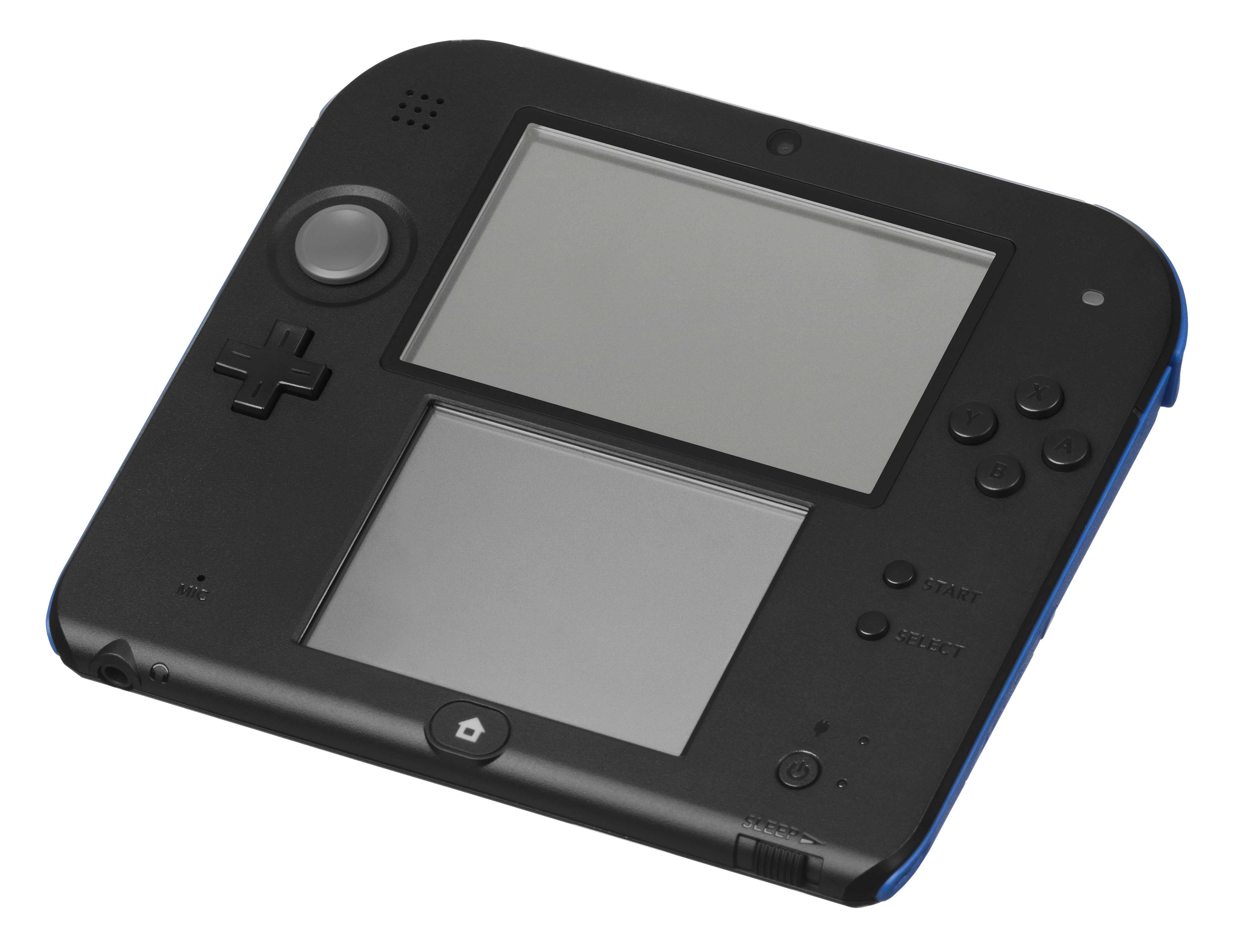 The Nintendo 2DS handheld gaming console. The 2DS is the 3rd hardware iteration of the Nintendo 3DS, after the 3DS and the 3DS XL, and was released in late 2013. It is notable for having a radically different form factor than the rest of the 3DS and DS line and omitting 3D capability. Instead of a clamshell design, the 2DS is a slate with one large LCD screen that is covered with plastic to mimic the two screens of the 3DS. Like the 3DS XL, it launched in either a blue or red color. The reduction in capabilities (mono sound, lack of 3D) positions the 2DS as the budget model of the 3DS lineup and it retails for $129.99, $40 less than the 3DS and $70 less than the 3DS XL. It is also marketed to young children, as Nintendo discourages children younger than 7 from using the 3D feature for eye health concerns.